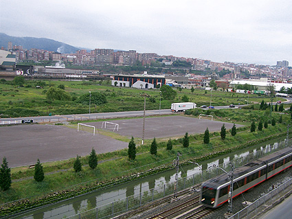 Sight of the wetland of Lamiako